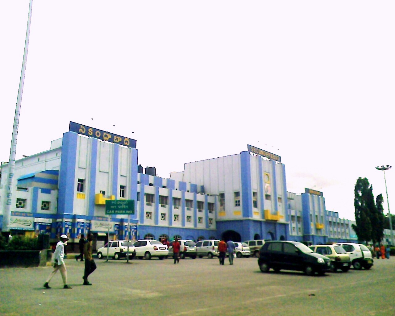 Secunderabad railway station, which is the head quarters of the south central railway.